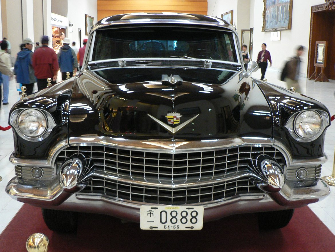 1955 Chiang Kai-shek's Cadillac Series 75 at Chiang Kai-shek Memorial Hall.